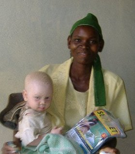 African mother holding albino child. Was taken during trip to Kenya after we dropped of suncream and hats for the high number of Albino children in this village. Copyright 2006 (C) Zac Bowling